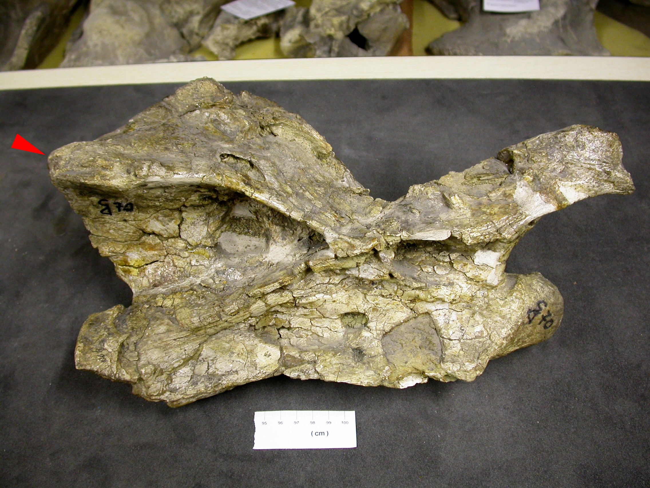 Holotype (HMN MB.R.2455, Cervical vertebra) of Australodocus.